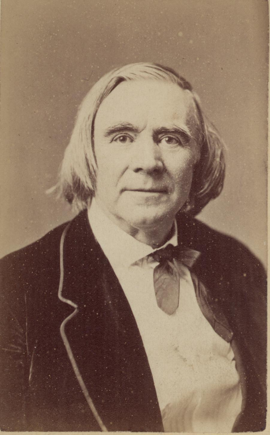 Artist: unknown Date/place: ca. 1868, Boston Subject: Ole Bull Medium: photographic positive, B&W Notes: written on back: "A. A. Watson" Persistent URL: [#// Original belongs to the Ole Bull Collection at Bergen Public Library]